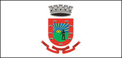 Coat of arms of the city of Santa Rosa, Rio Grande do Sul, Brazil.